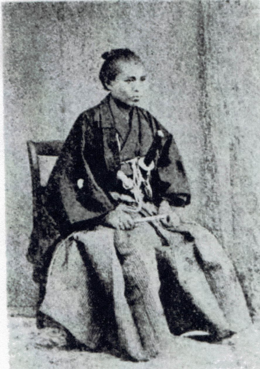 Tatsuo Kumoi